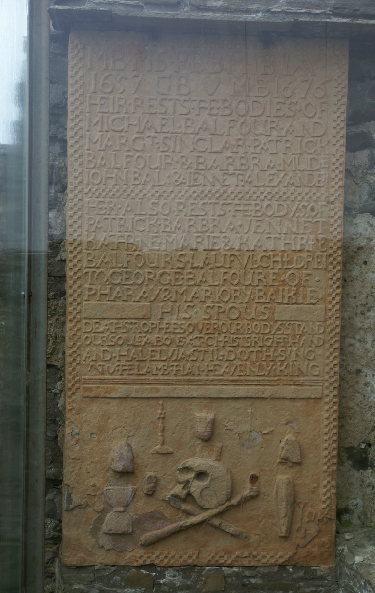 Pierowall Church, Pierowall, Westray, Orkney, Scotland. Gravestone in Laird's Aisle.